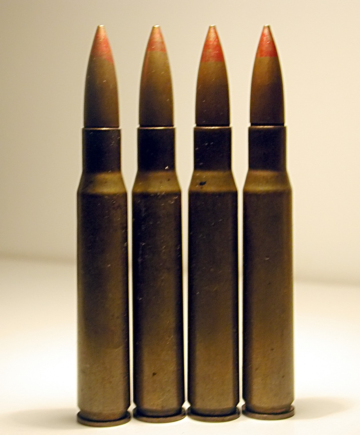 A picture of 4 rifle cartridges that are from the WWII era.